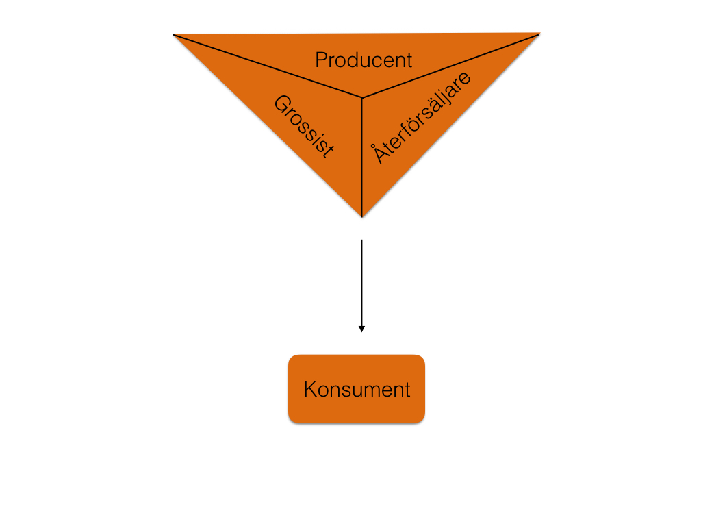 Vertical marketing system